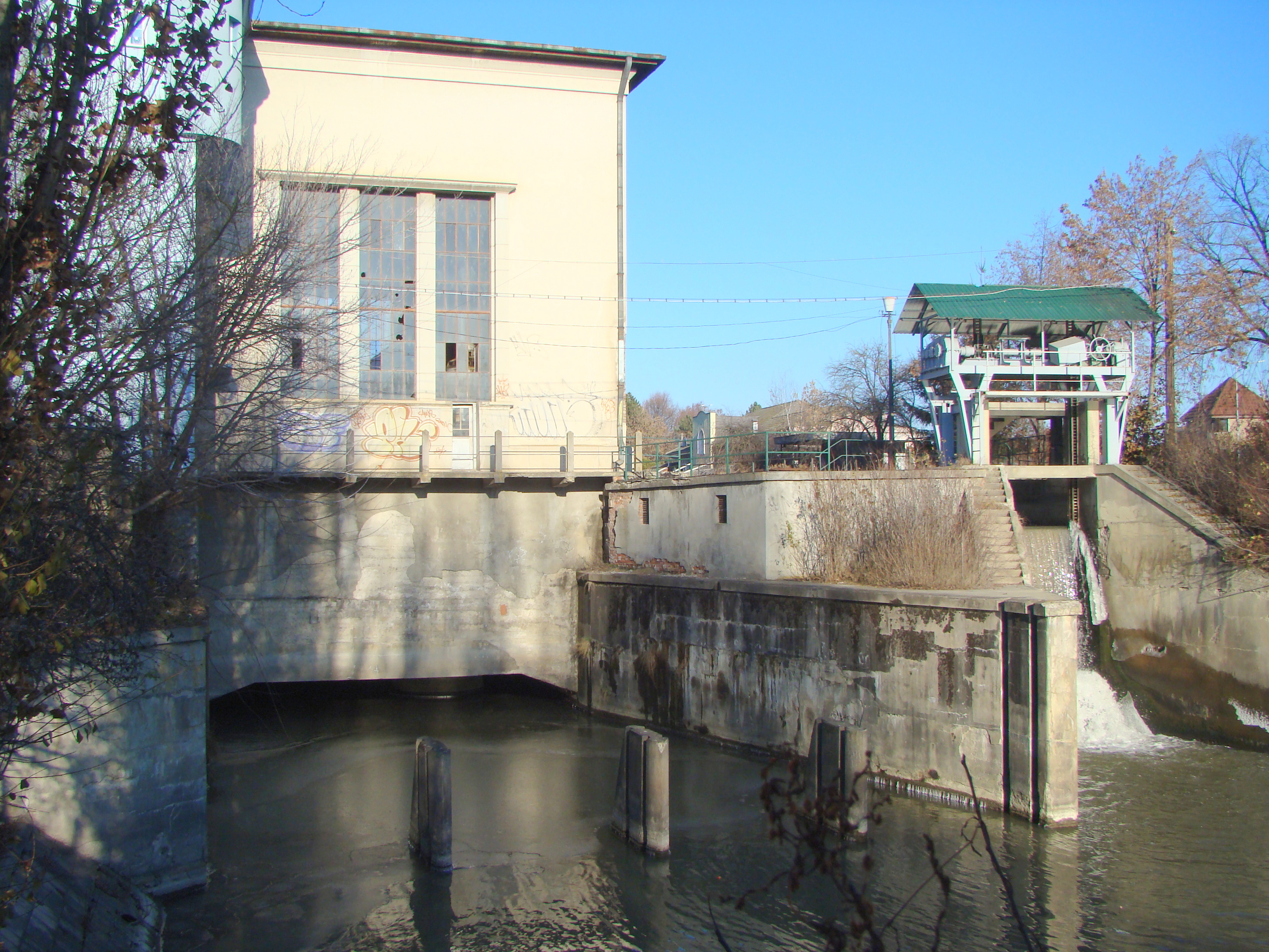 Hydroelectric Power Plant in Târgu Mureș, Uzinei street, number 1